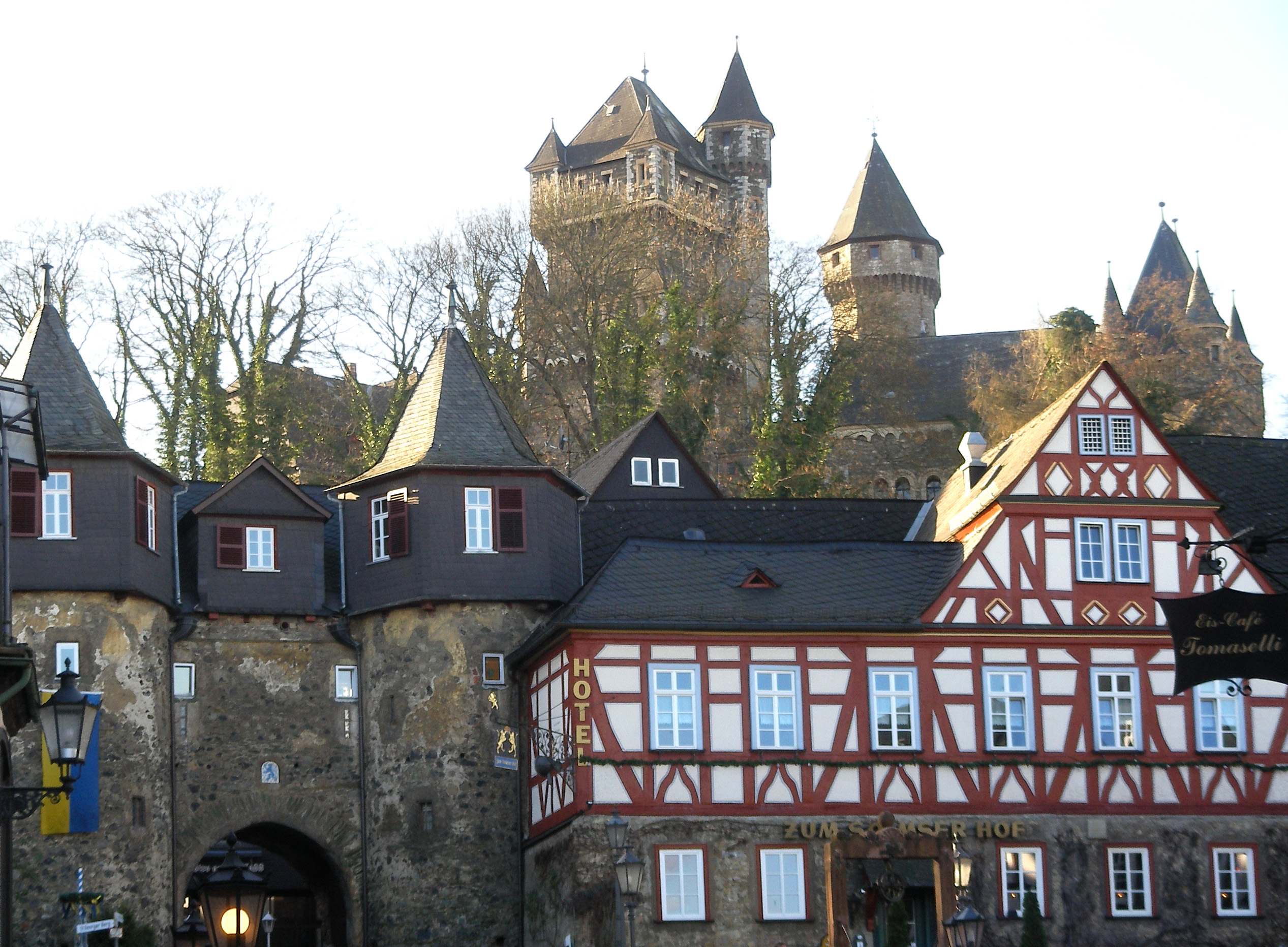 Timber Frame House „Solmser Hof“, Unterste Pforte (lower gate) of Schloss (Castle) Braunfels, Braunfels, Germany